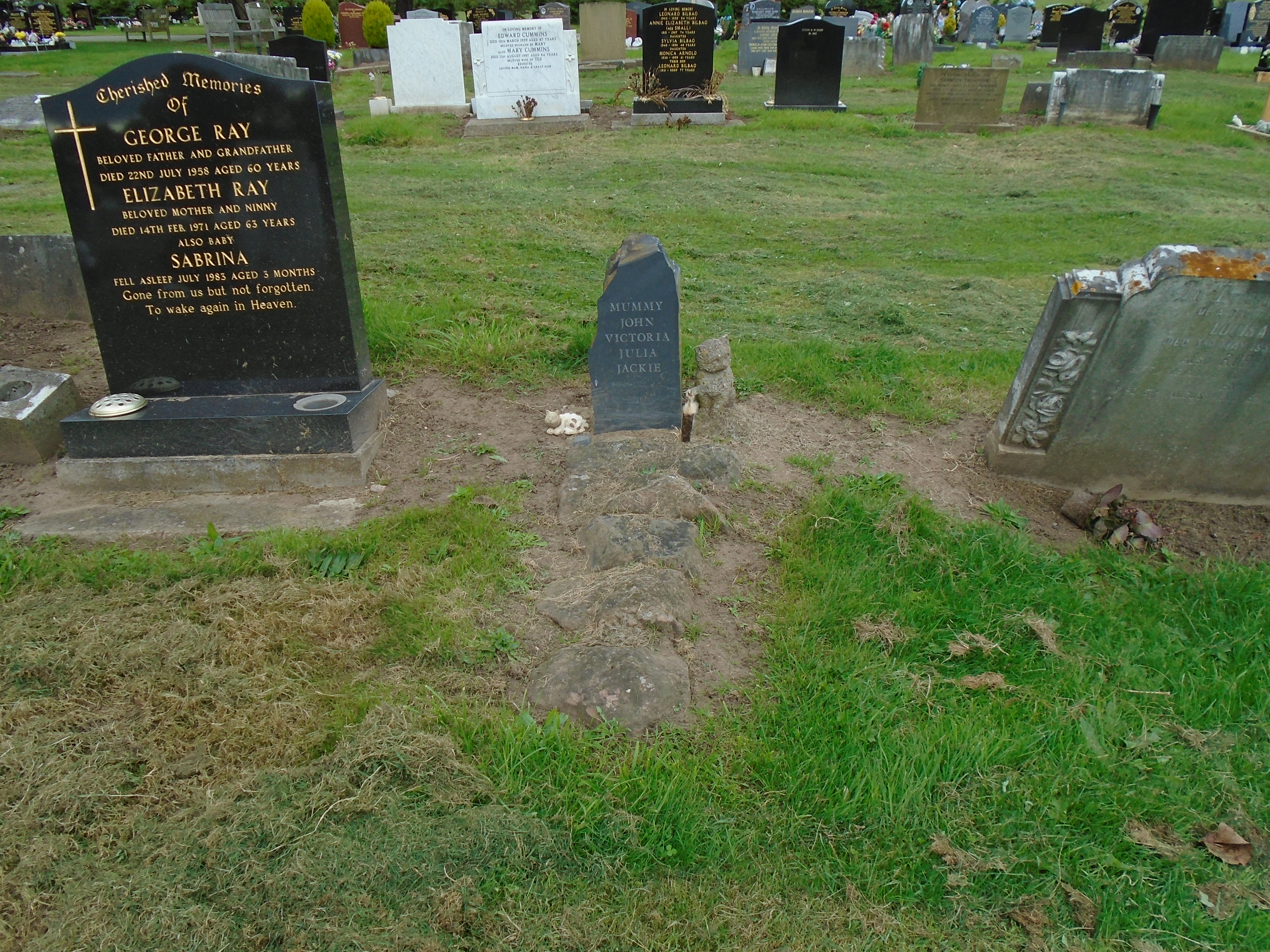 This grave is not easy to find, so shown here in context.